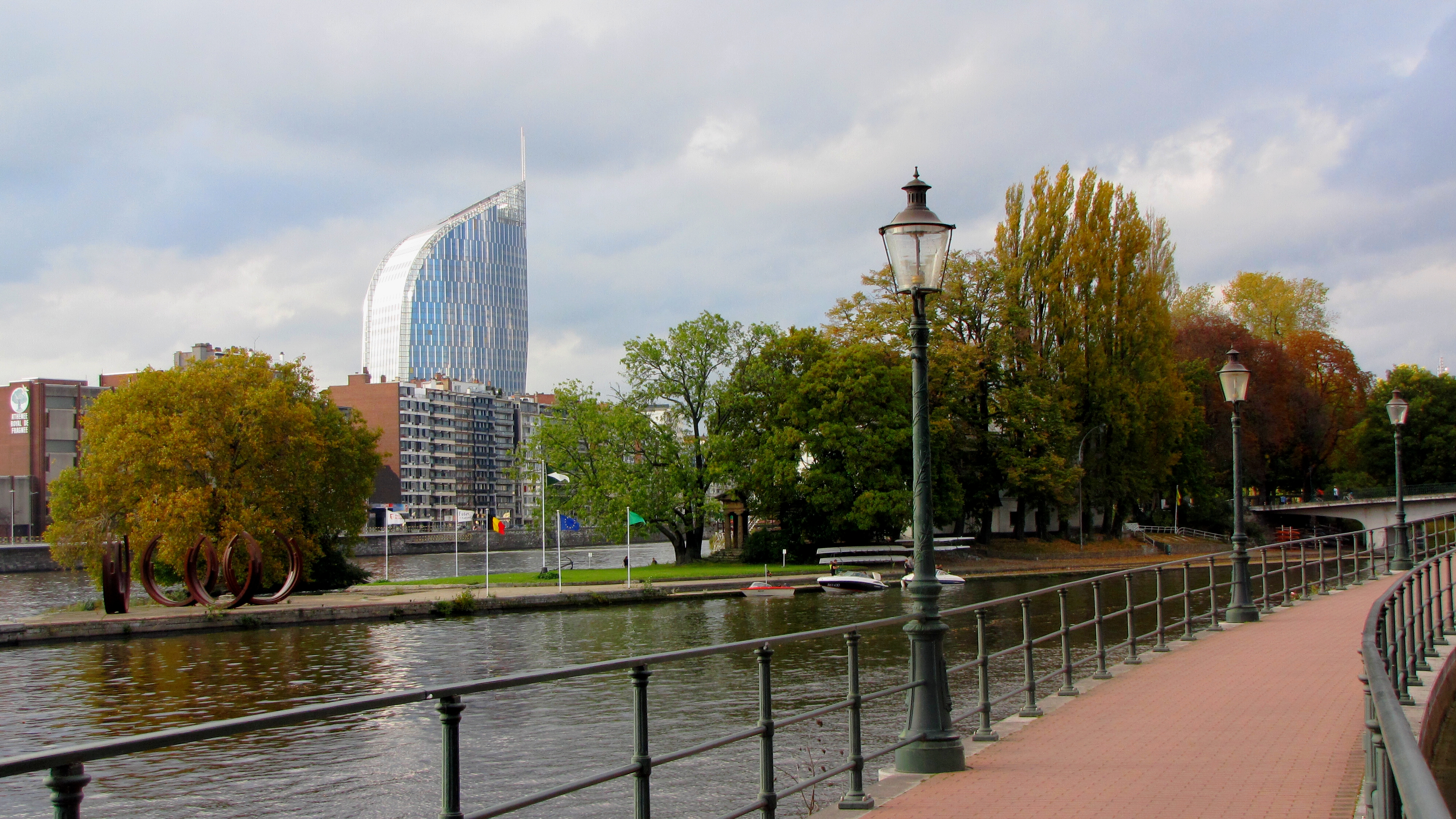 Paradis Tower since the Mativa Quay in Liege